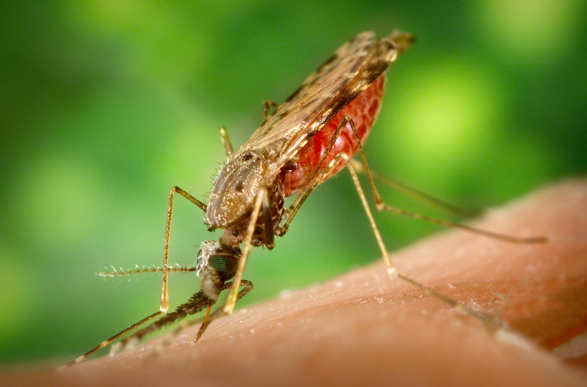 This 2005 photograph depicted a female Anopheles albimanus mosquito while she was feeding on a human host, thereby, becoming engorged with blood. Like other species in the genus Anopheles, A. albimanus adults hold the major axis of the body more perpendicularly to the surface of the skin when blood feeding. Anopheles spp. adults also generally feed in the evening, or early morning when it is still dark. This species is a vector of malaria, predominantly in Central America.